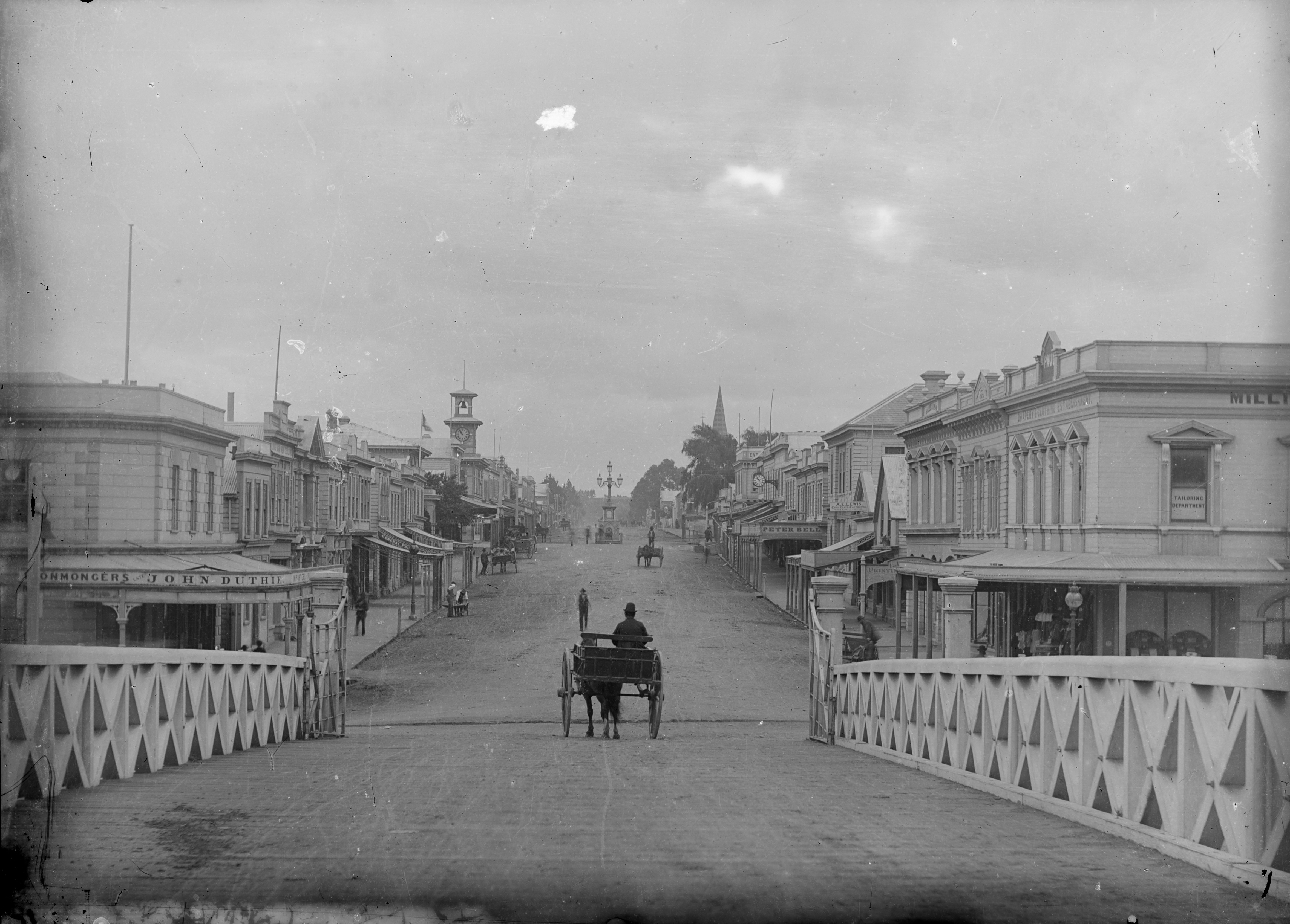 Victoria Avenue, Whanganui, looking from the bridge, including business premises of ironmonger John Duthie.